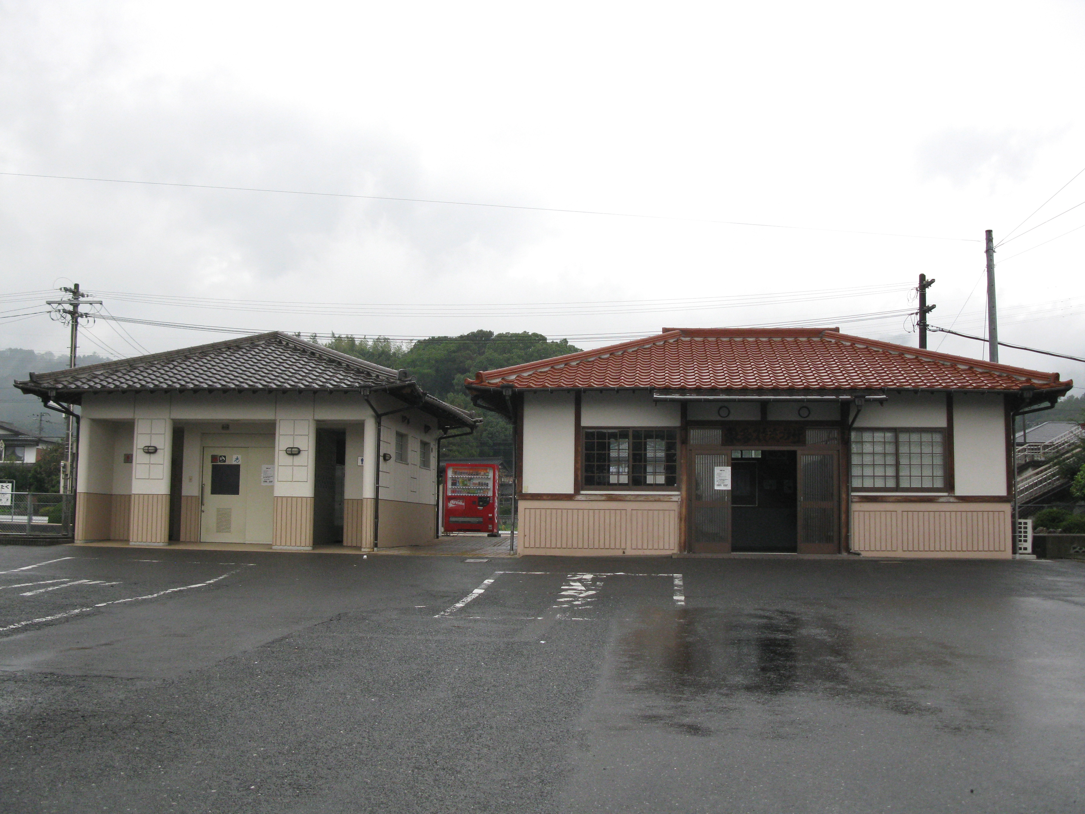 The entrance to Higashi-Taku Station on the Kyushu Railway(JR Kyūshū) Karatsu Line in Taku city, Saga prefecture, Japan